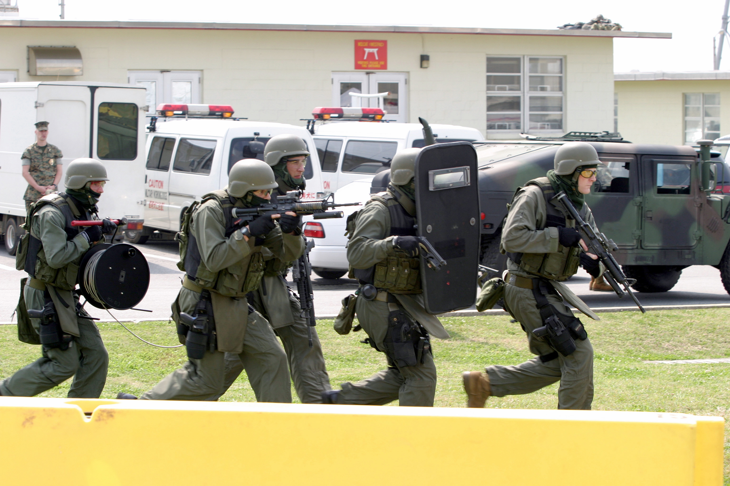 A US Marine Corps (USMC) Special Reaction Team (SRT) moves into the hostile area as they participate in a simulated terrorists holding hostages situation during a Force Protection Exercise (FPEX) conducted on MCB Camp Smedley D. Butler / Camp Foster. The (Released to Public) Location: MARINE CORPS BASE, CAMP BUTLER, OKINAWA JAPAN (JPN)